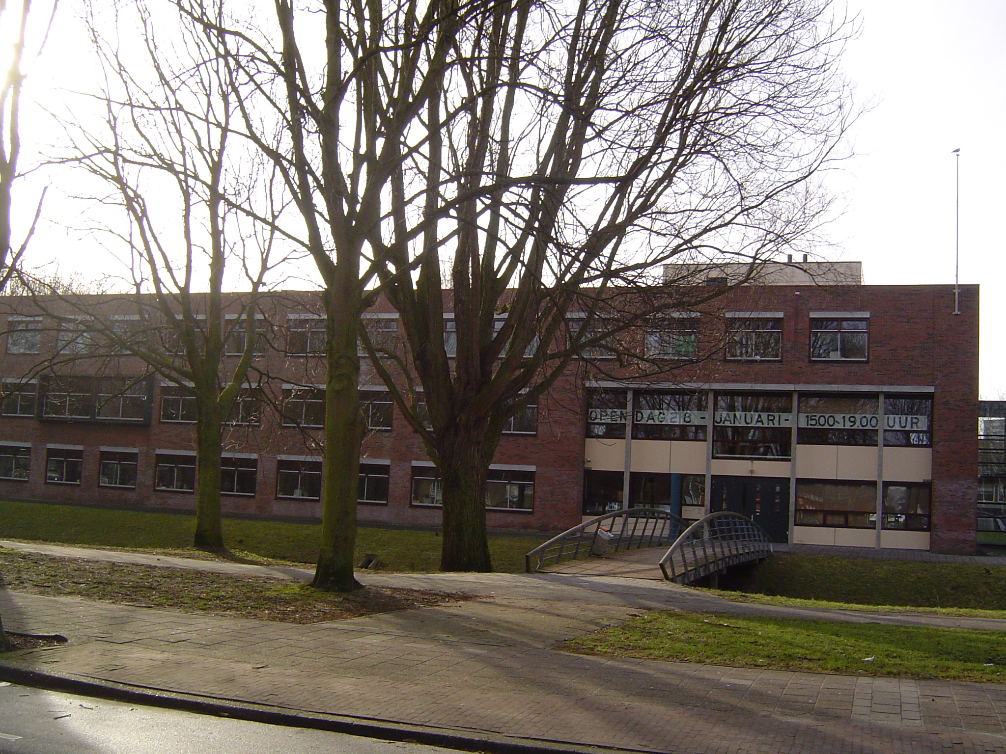 Terra College, school in the Hague